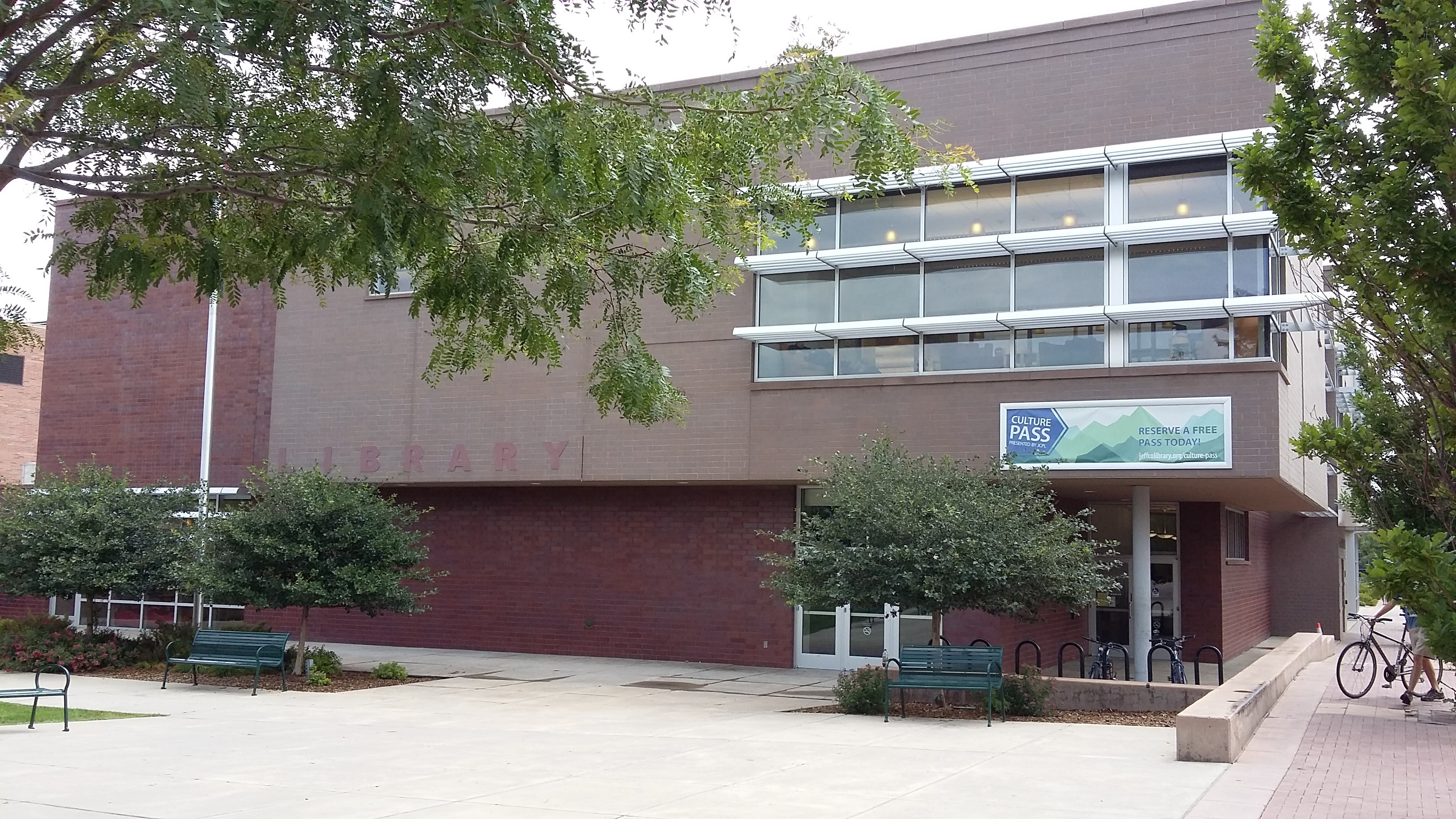 Arvada Library - JeffCO Public Library